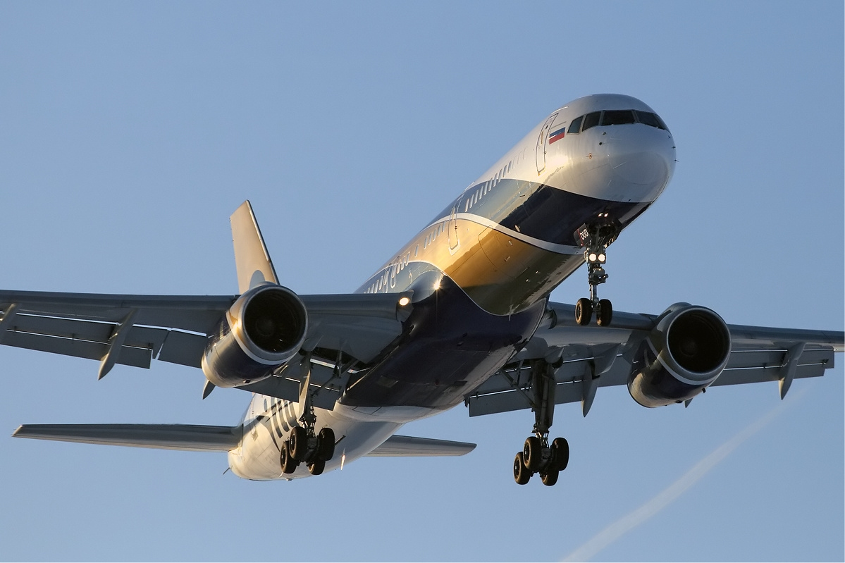 I Fly Boeing 757